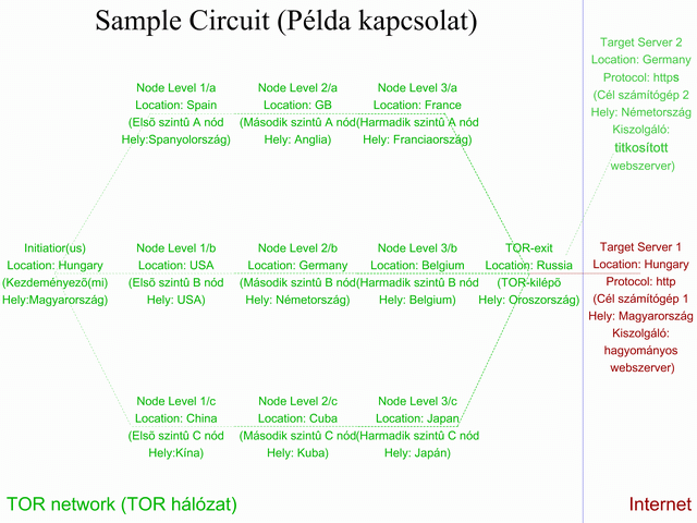 Sample circuit